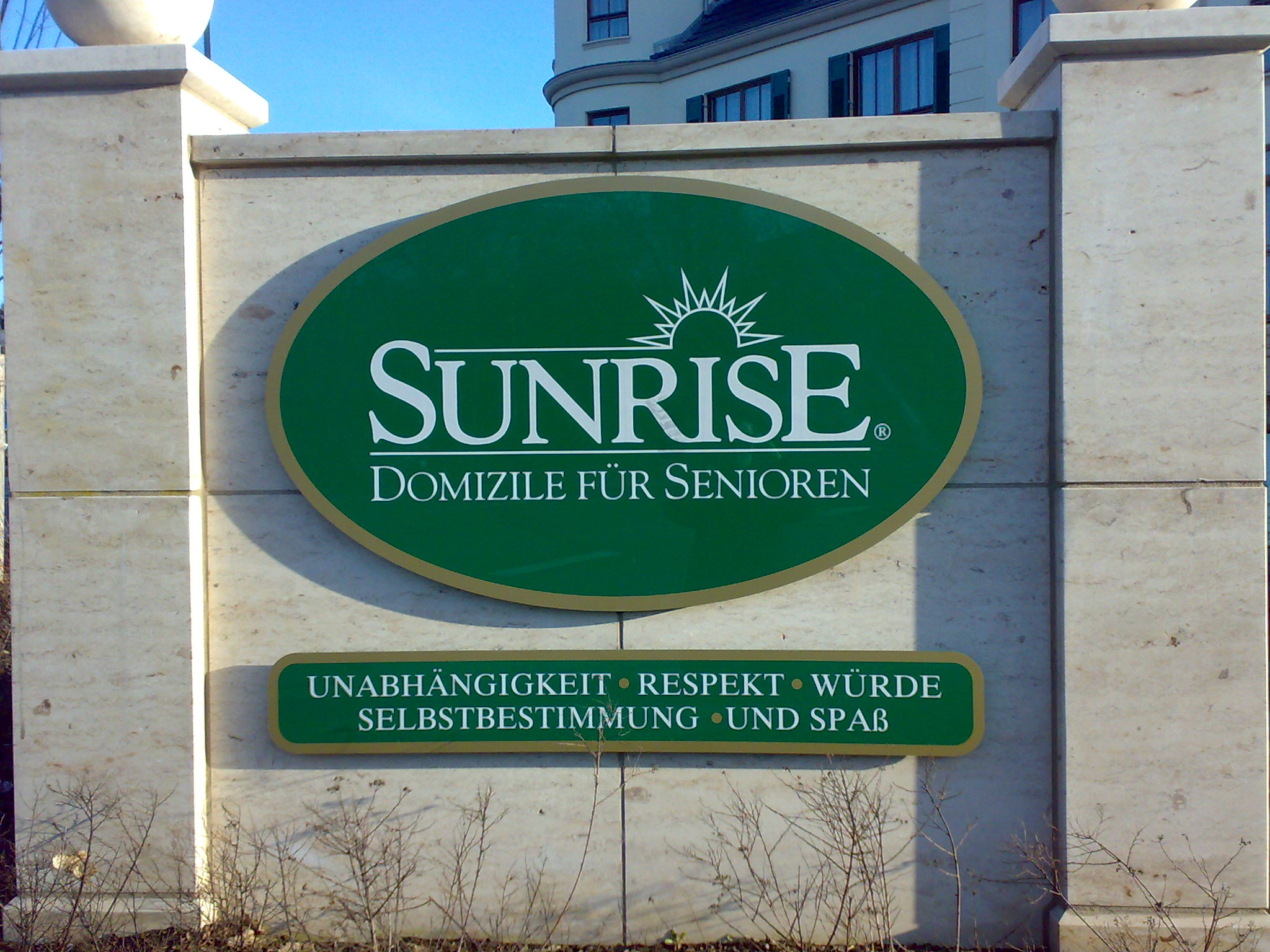 Sunrise logo in front of Sunrise retirement home in Königstein im Taunus, Germany